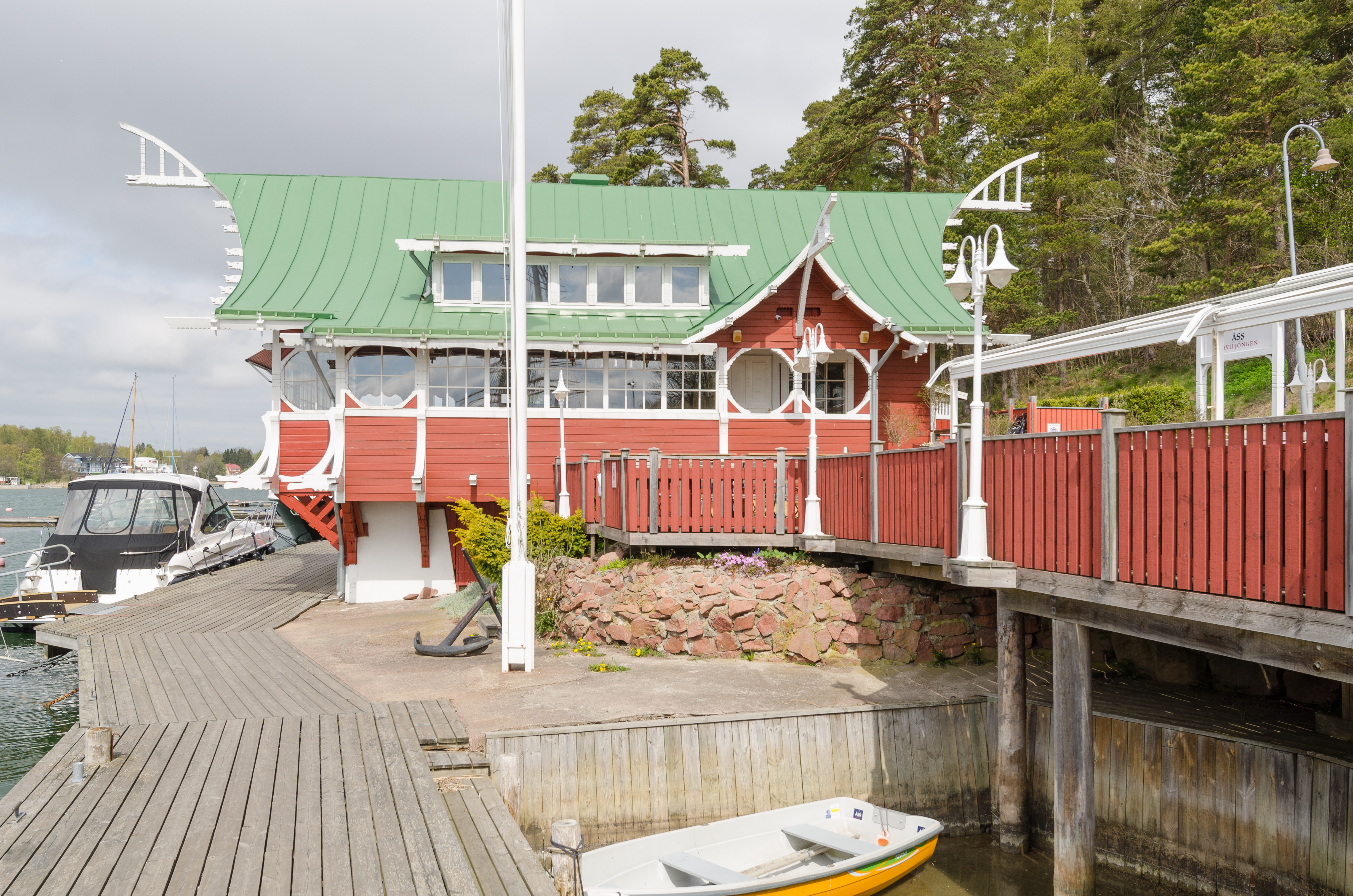 Segelpaviljongen.(the Sails Pavilion) in Mariehamn, Mariehamn, Åland (Finland). Architect Lars Sonck